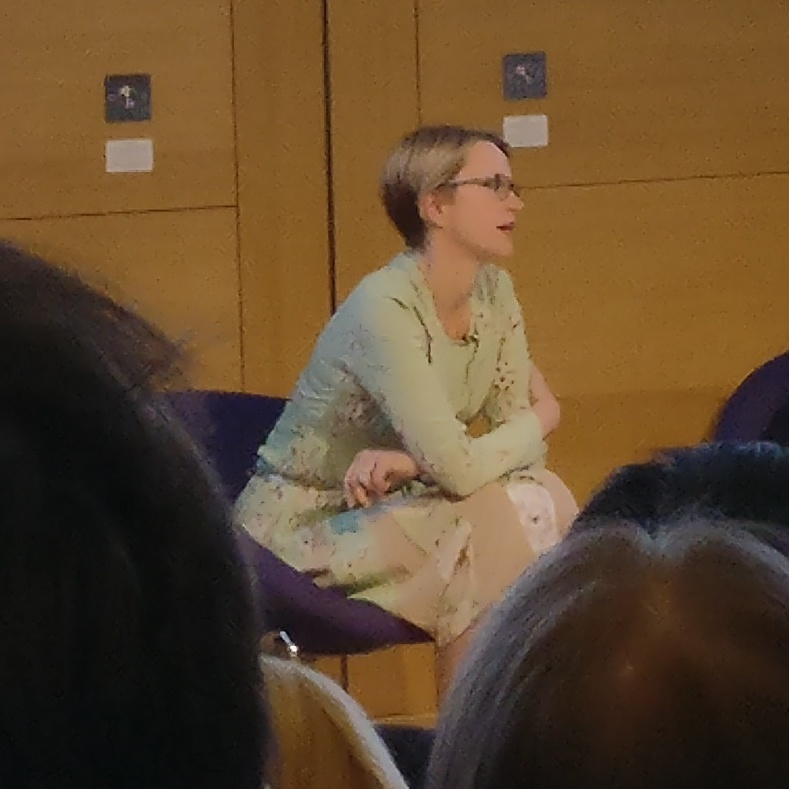 Emma Walmsley, CEO of GSK, speaking to Paul Nurse at The Francis Crick Institute during a discussion on the role of company culture in company strategy. May 2019.